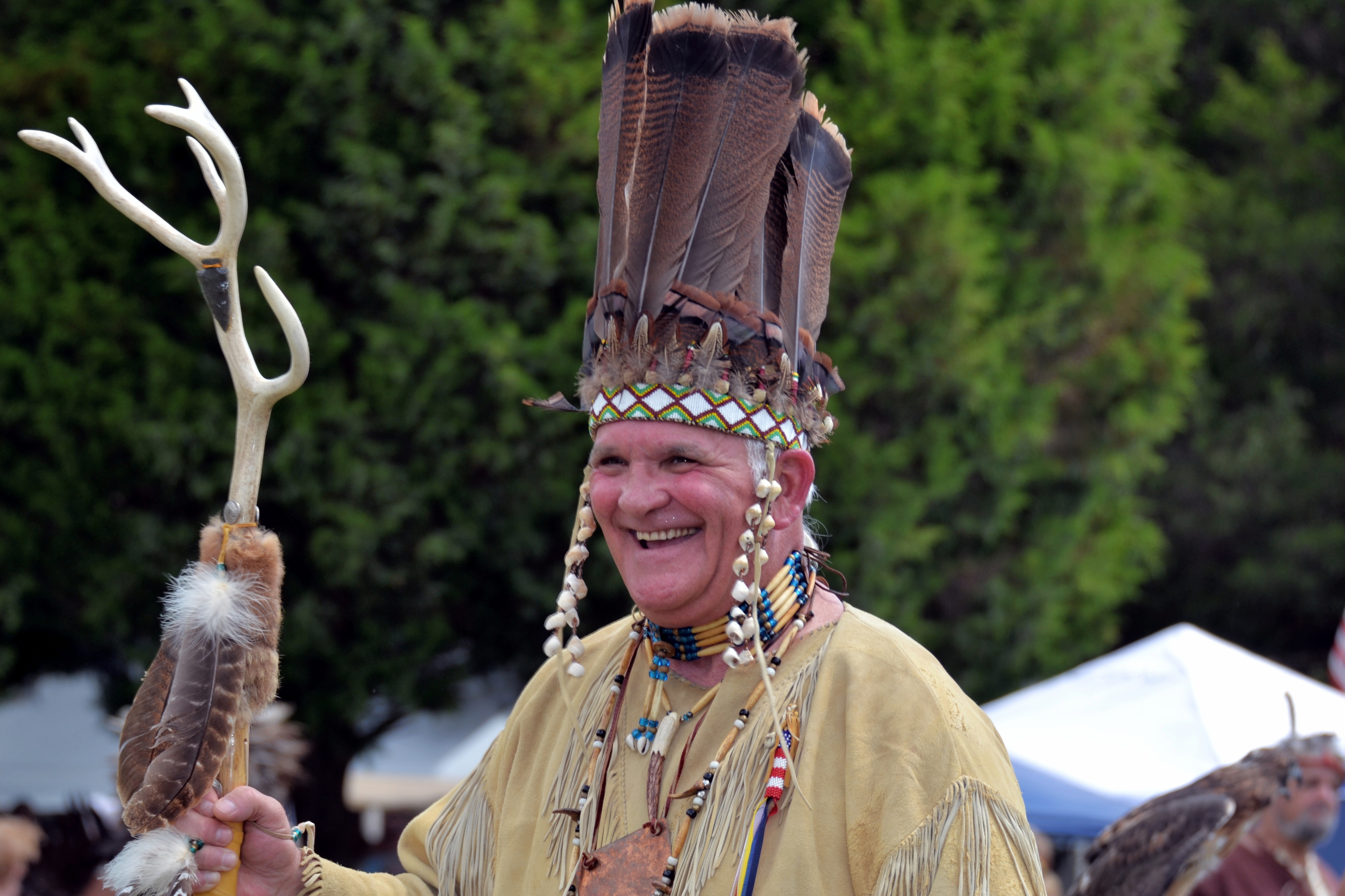 From the Nansemond 2011 Pow Wow - I am not sure but I think this Chief Barry "Big Buck Bass, Chief of the Nansemonds.